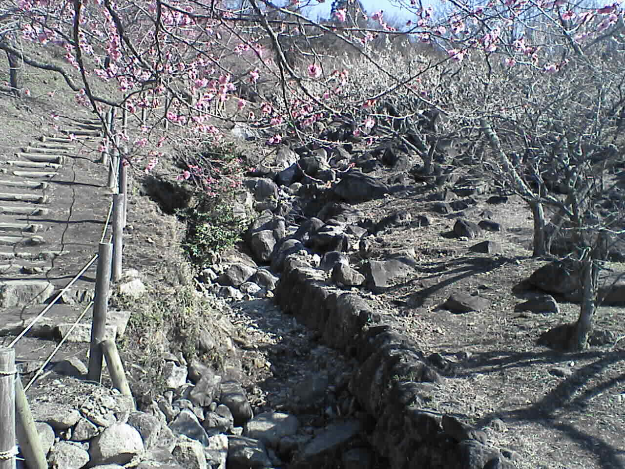 The Plum Garden of Mt. Tsukuba municipal in Tsukuba city, Ibaraki pref, Japan.